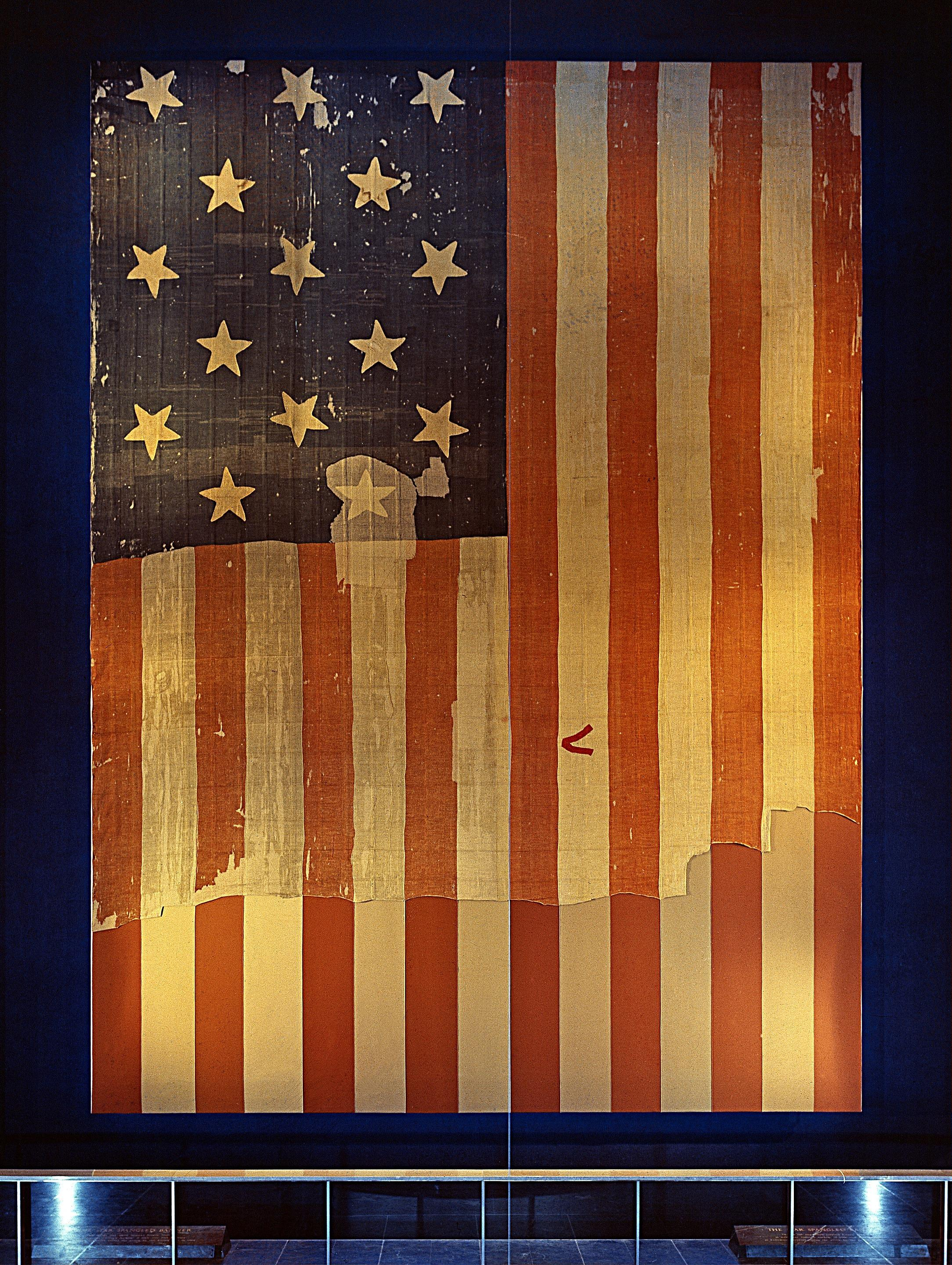 The large Star Spangled Banner Flag that inspired the lyrics of the US national anthem when it flew above Fort McHenry in the 1814 Battle of Baltimore. Shown here on display at the Smithsonian's National Museum of History and Technology, around 1964. Many pieces were cut off the flag and given away as souvenirs early during its history. A linen backing, attached in 1914, shows the original extent of the flag.